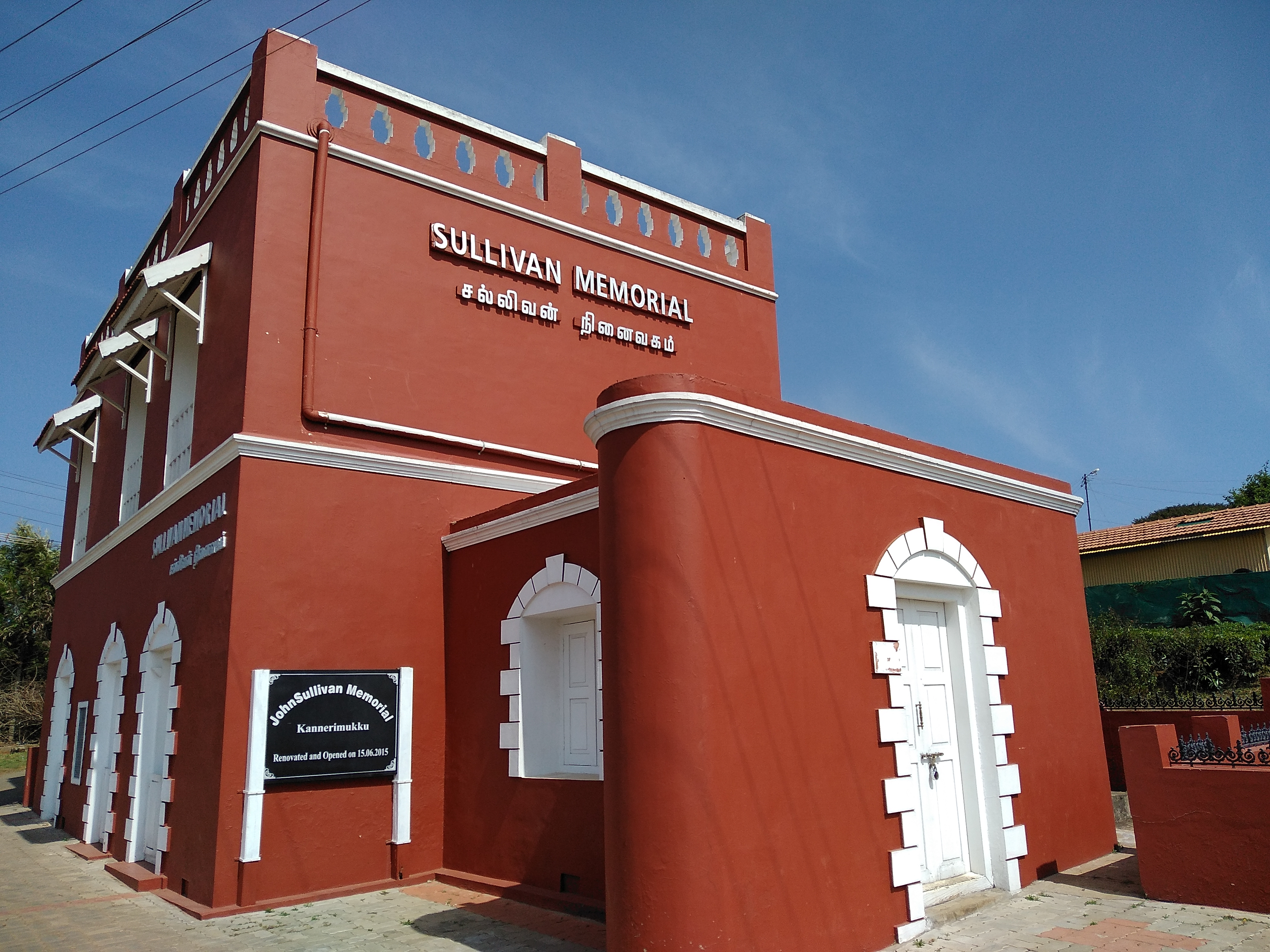 John Sullivan's (the founder of the British settlement at Ootacamund) renovated Memorial Building.